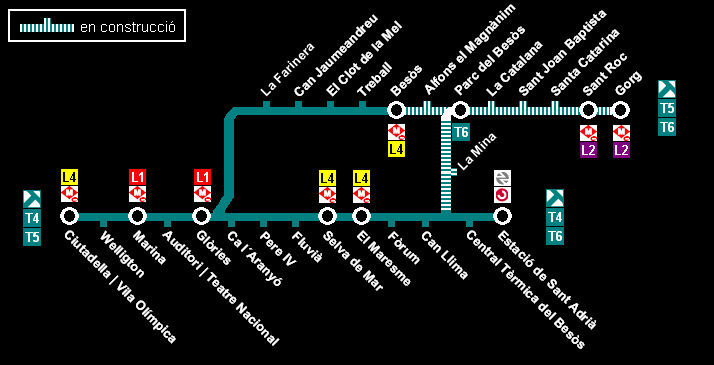 Map of the Trambesòs network in Barcelona